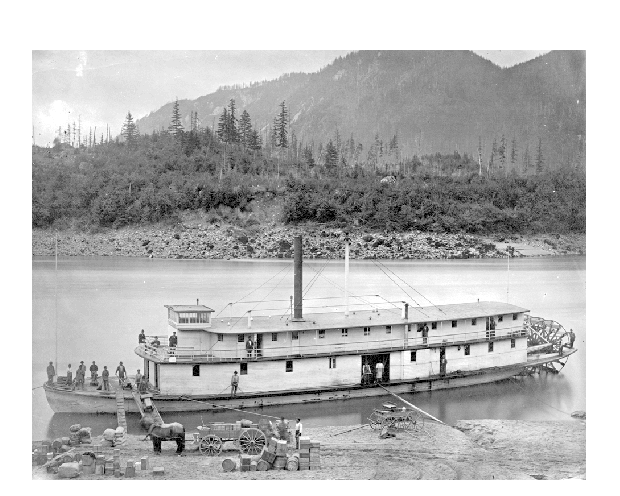 Photo taken before 1880 Photographer: Maynard Source # A-00085 [1]